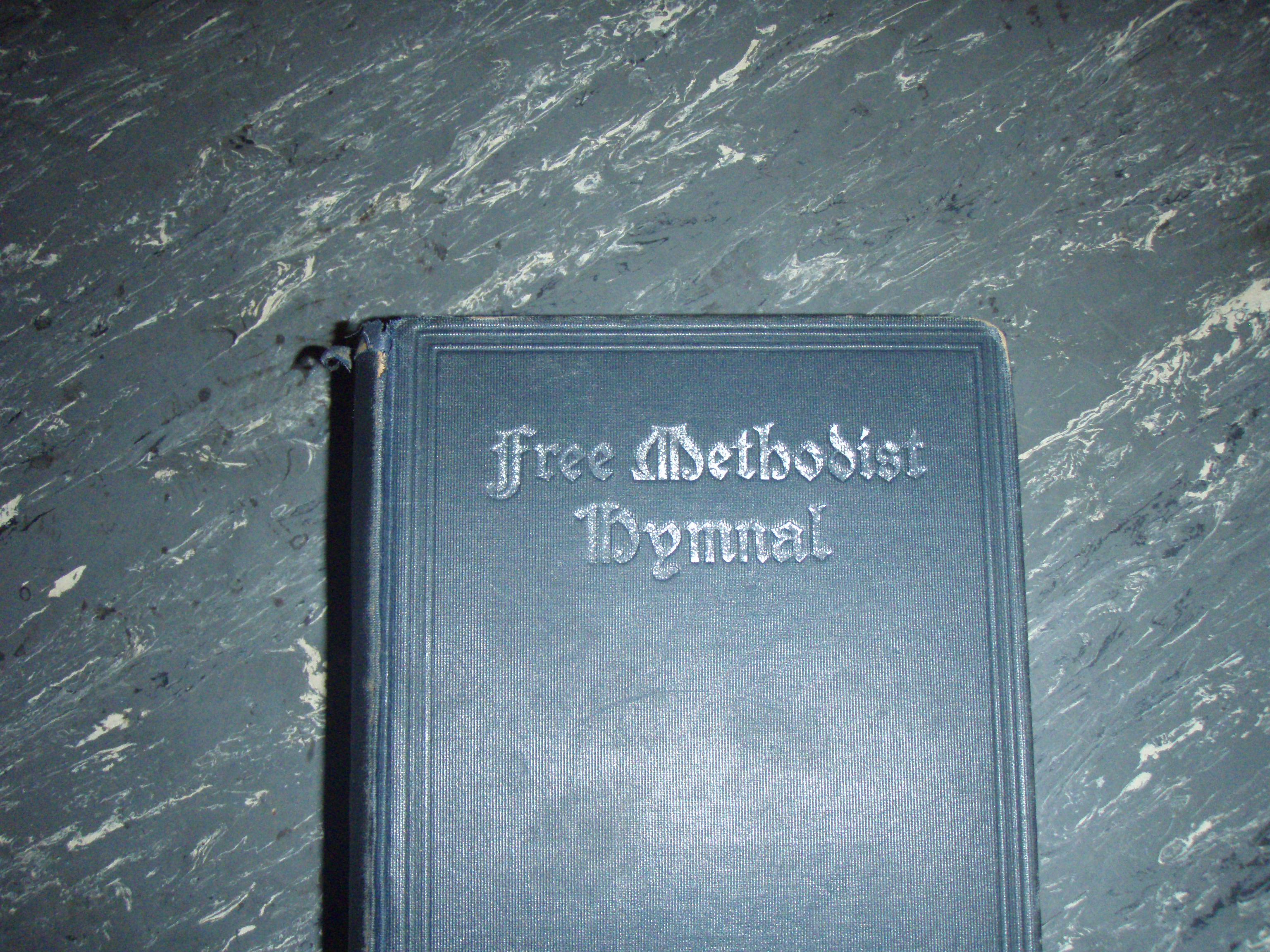 Free Methodist Hymnal bought at an estate sale.